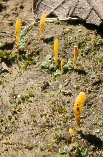 This image shows Lepidostroma vilgalysii, a lichen species. The photo was taken just before the specimen was collected in the field; this specimen was used as the type specimen when the species was later described.